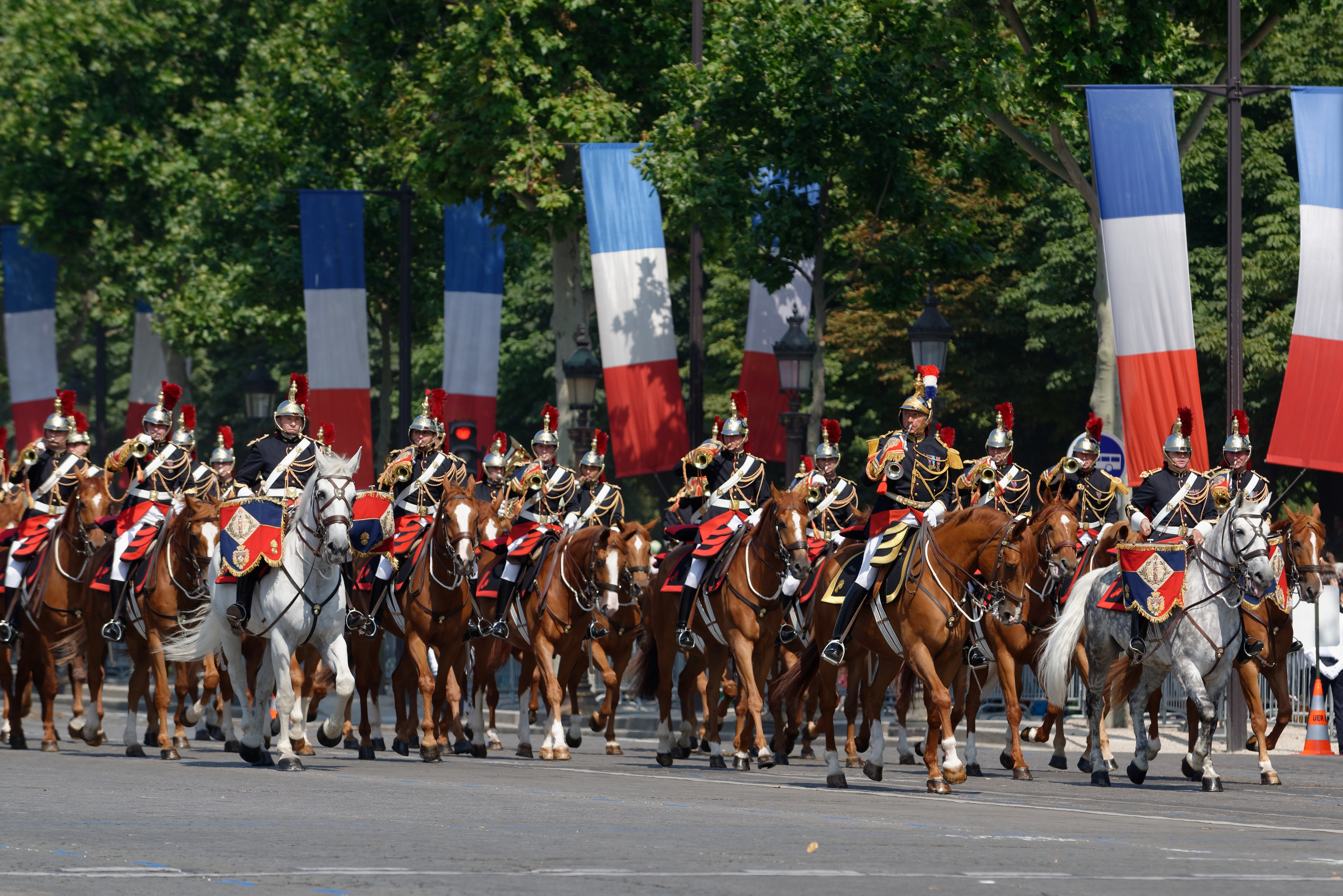 The mounted band of the Republican Guard takes part in the Bastille Day 2013 military parade on the Champs-Élysées in Paris.